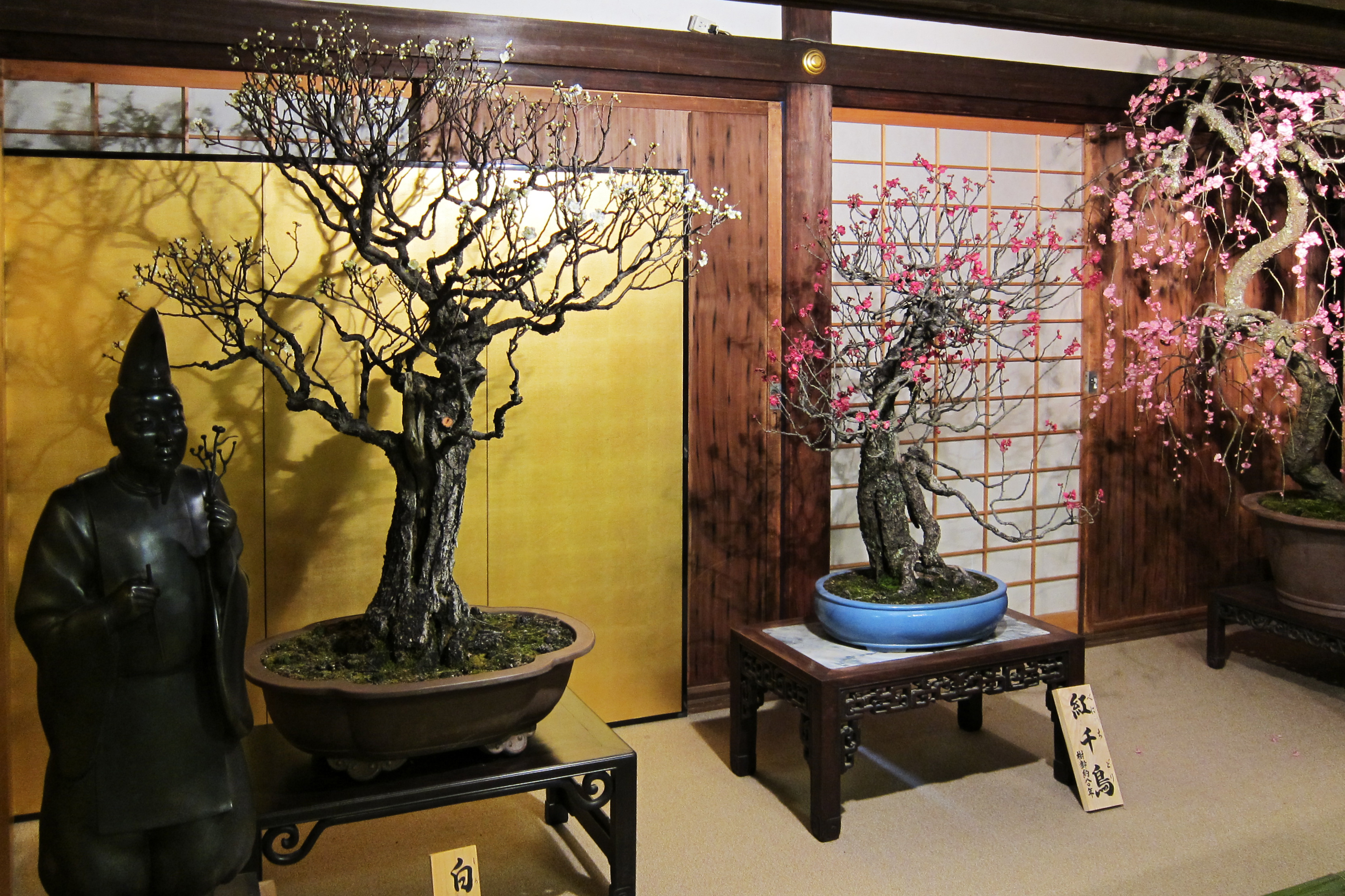 Bonsai Exhibition in Osaka Temmangu (大阪天満宮の盆梅展), Osaka City, Japan.